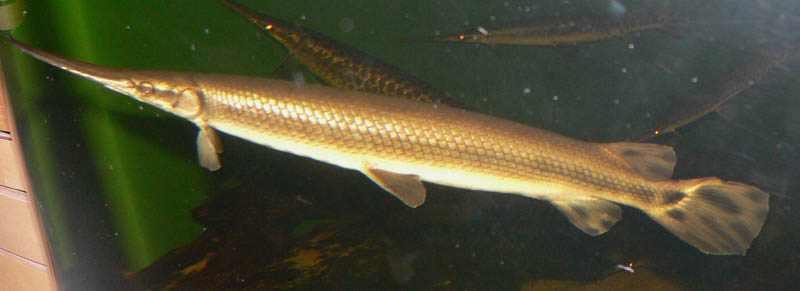 Photo of Lepisosteus osseus (longnose gar) at the Steinhart Aquarium in San Francisco